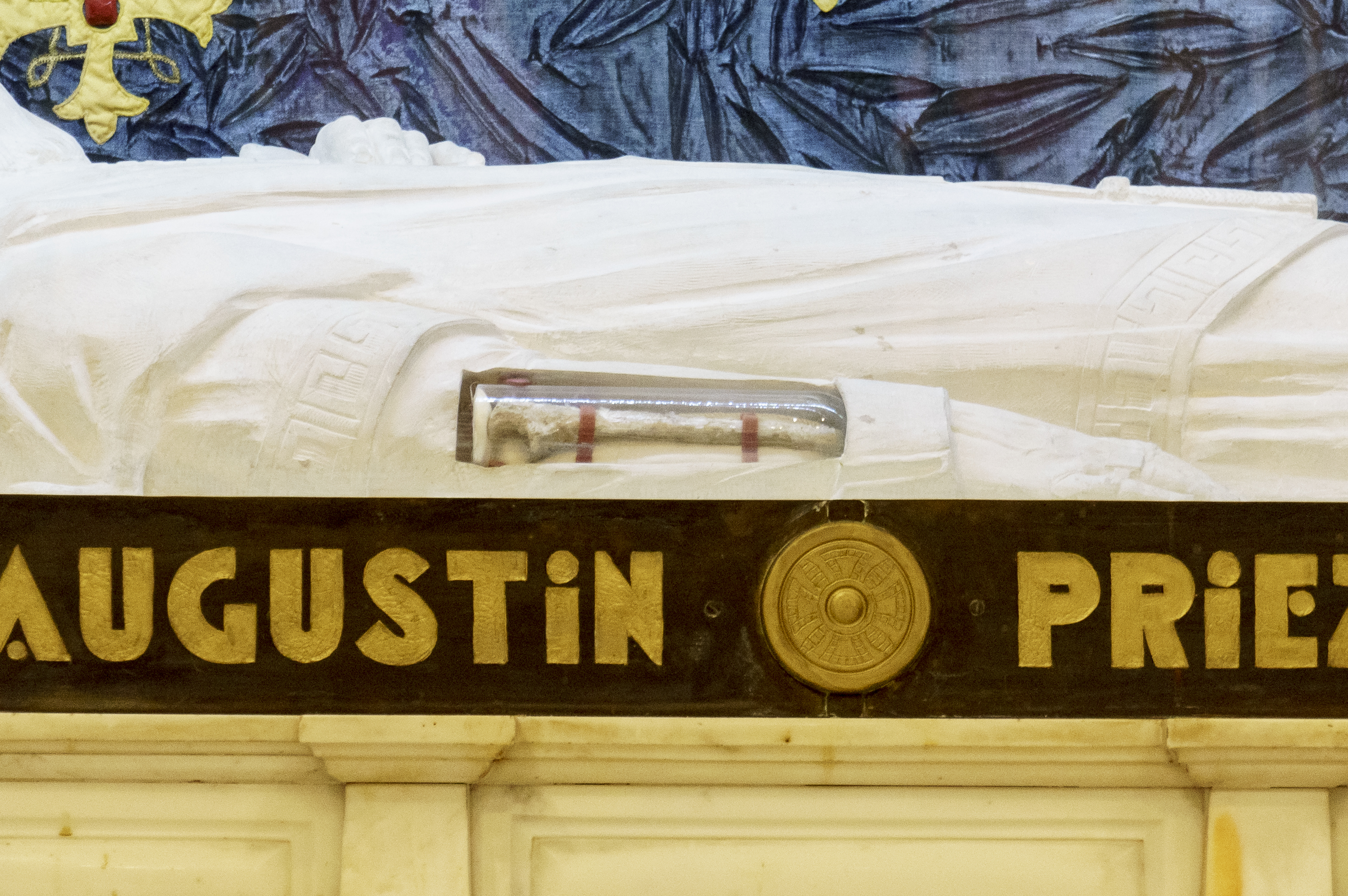 The relic of St. Augustine (radial bone) - St. Augustine's Basillica, Hippo Regius